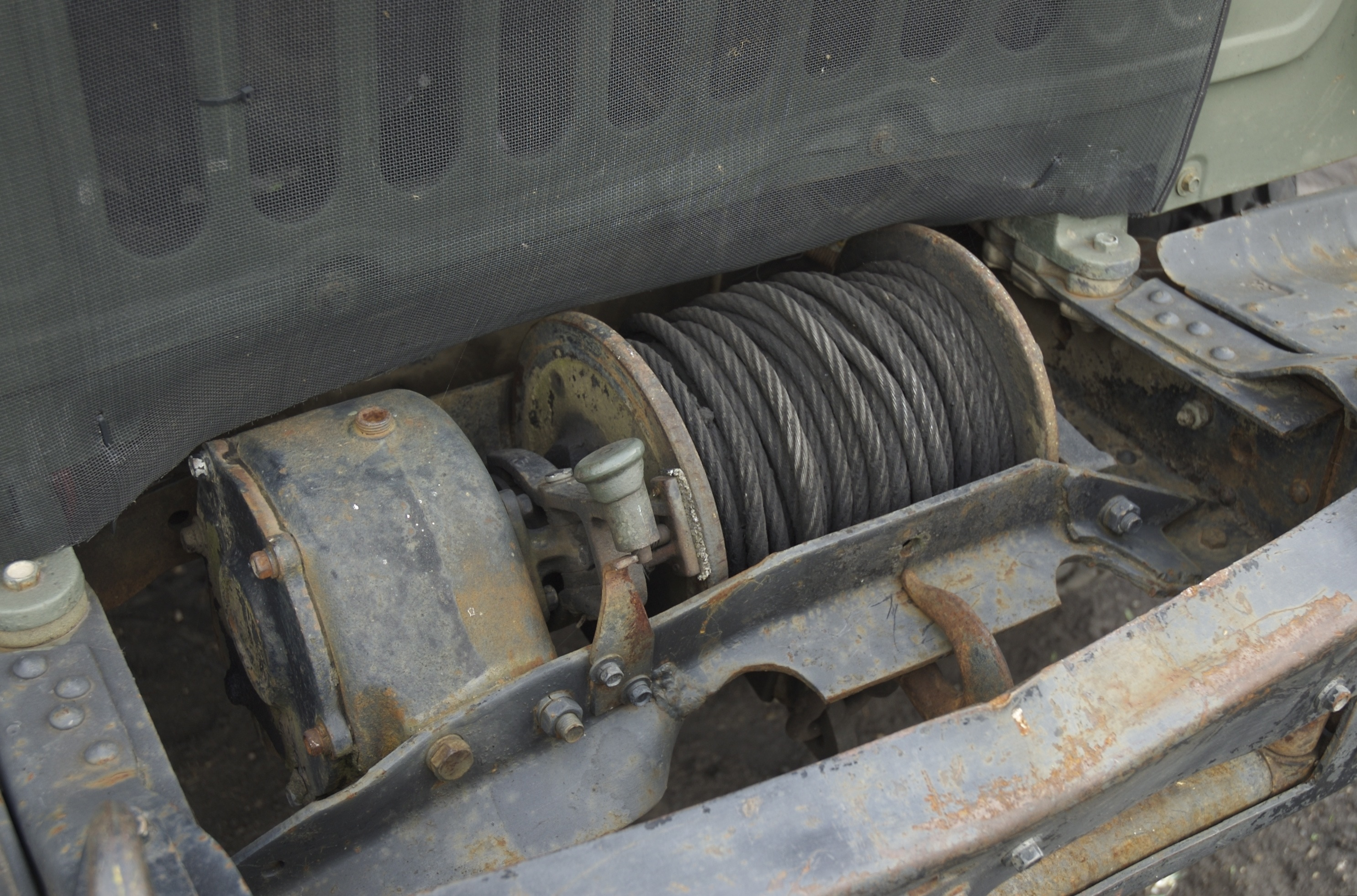 GAZ-66 truck, displayed at the Zamárdi Military Park (Zamárdi, Hungary)